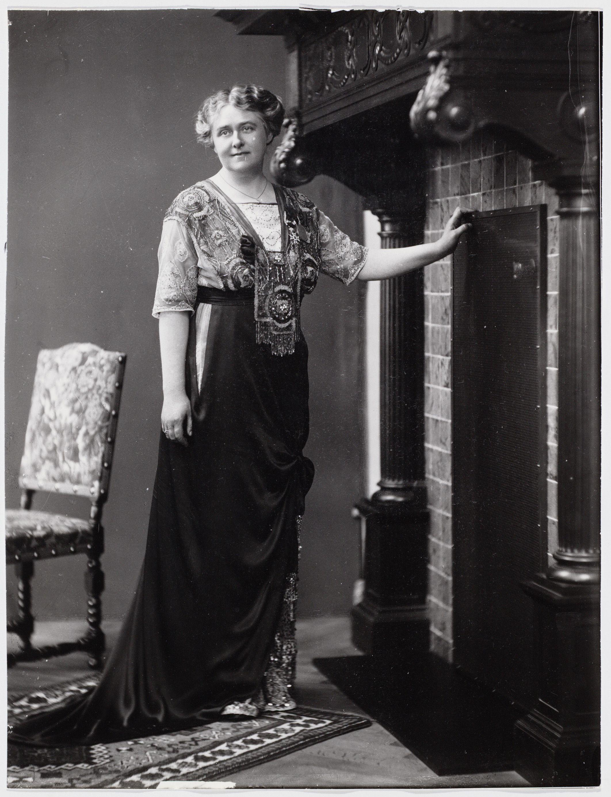 Dutch singer Aaltje Noordewier-Reddingius. Photograph by Jacob Merkelbach